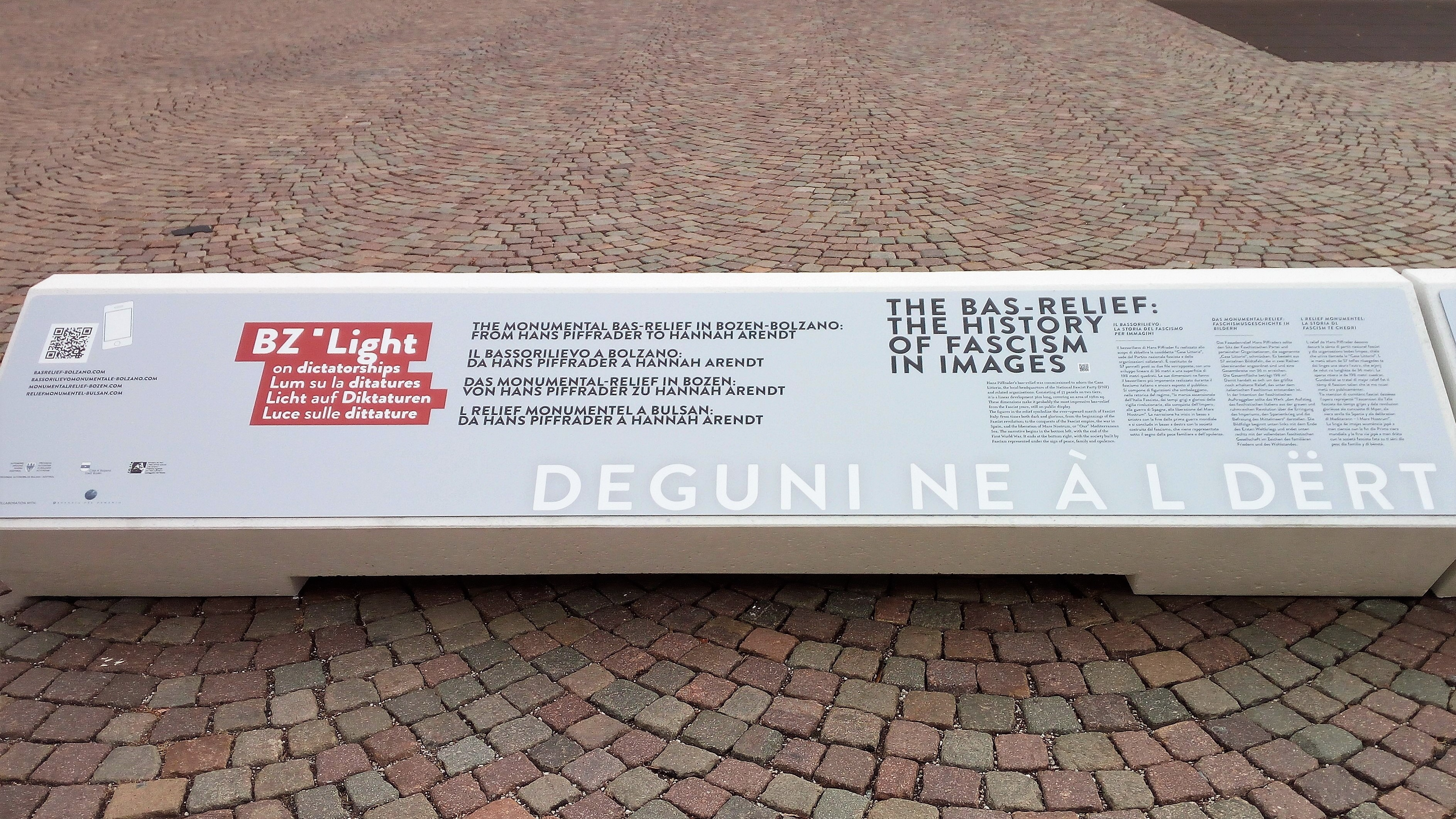 Description of the Bas-Relief in Bozen-Bolzano